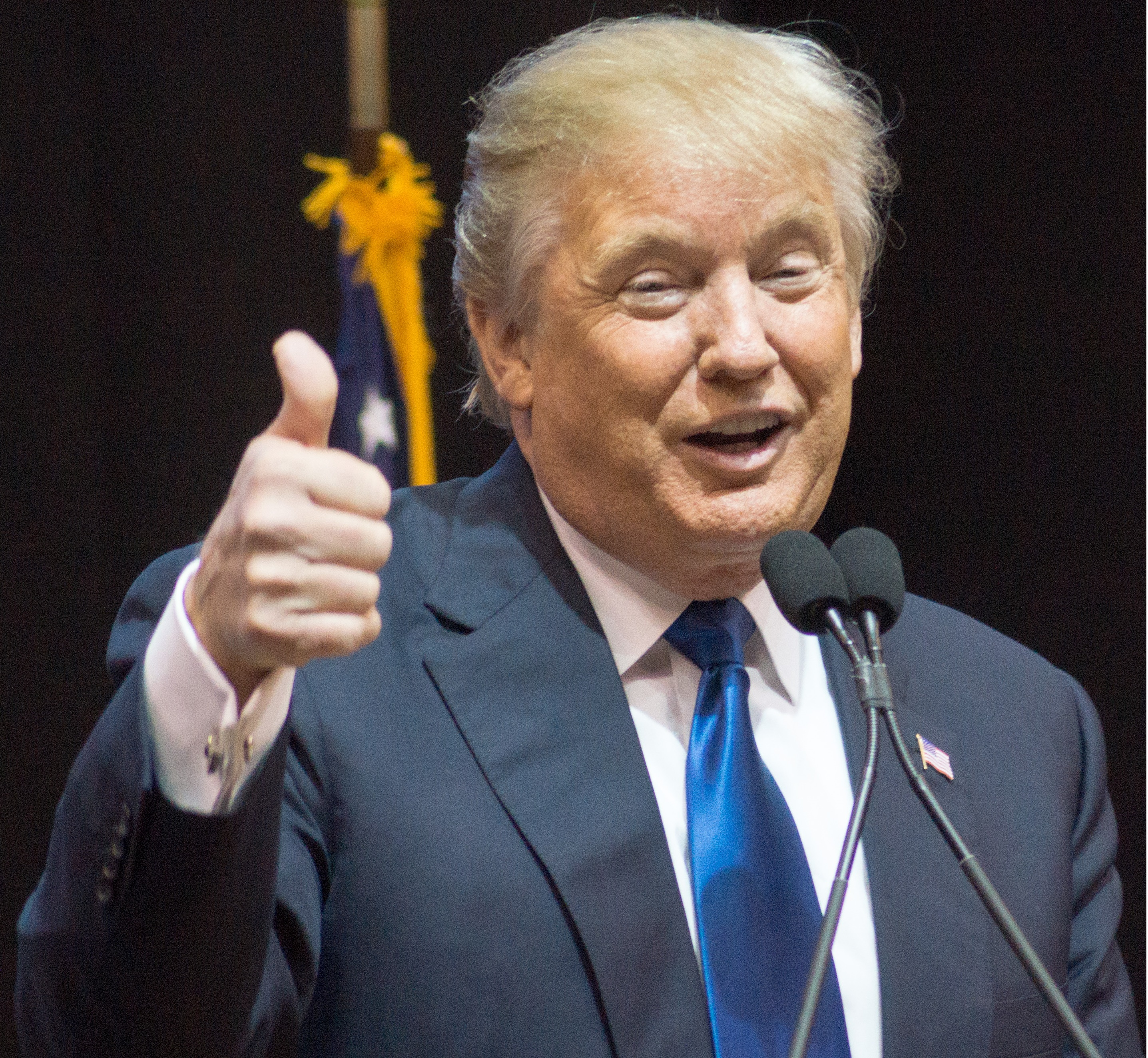 Donald Trump